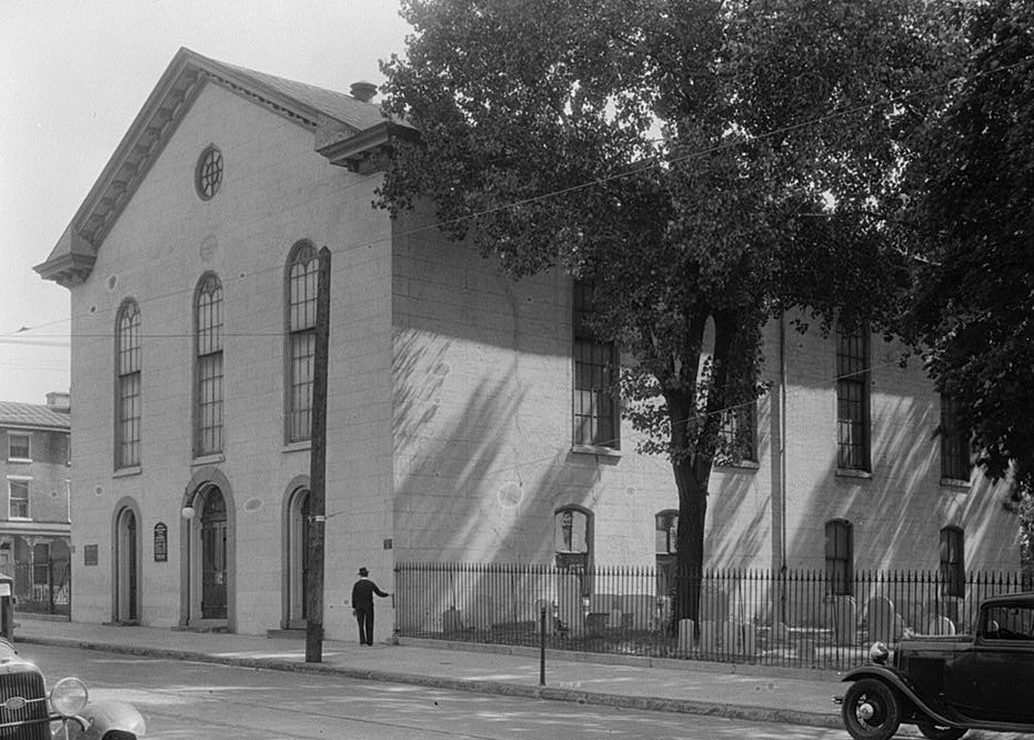 Asbury Methodist Episcopal Church, Third & Walnut Streets, Wilmington (New Castle County, Delaware) cropped This file comes from the Historic American Buildings Survey (HABS), Historic American Engineering Record (HAER) or Historic American Landscapes Survey (HALS). These are programs of the National Park Service established for the purpose of documenting historic places. Records consist of measured drawings, archival photographs, and written reports. When reusing please credit: Library of Congress, Prints & Photographs Division, DEL,2-WILM,26-1 This tag does not indicate the copyright status of the attached work. A normal copyright tag is still required. See Commons:Licensing. This work is in the public domain in the United States because it is a work prepared by an officer or employee of the United States Government as part of that person’s official duties under the terms of Title 17, Chapter 1, Section 105 of the US Code. Note: This only applies to original works of the Federal Government and not to the work of any individual U.S. state, territory, commonwealth, county, municipality, or any other subdivision. This template also does not apply to postage stamp designs published by the United States Postal Service since 1978. (See § 313.6(C)(1) of Compendium of U.S. Copyright Office Practices). It also does not apply to certain US coins; see The US Mint Terms of Use. This file has been identified as being free of known restrictions under copyright law, including all related and neighboring rights. Object location39° 44′ 17″ N, 75° 32′ 56″ W